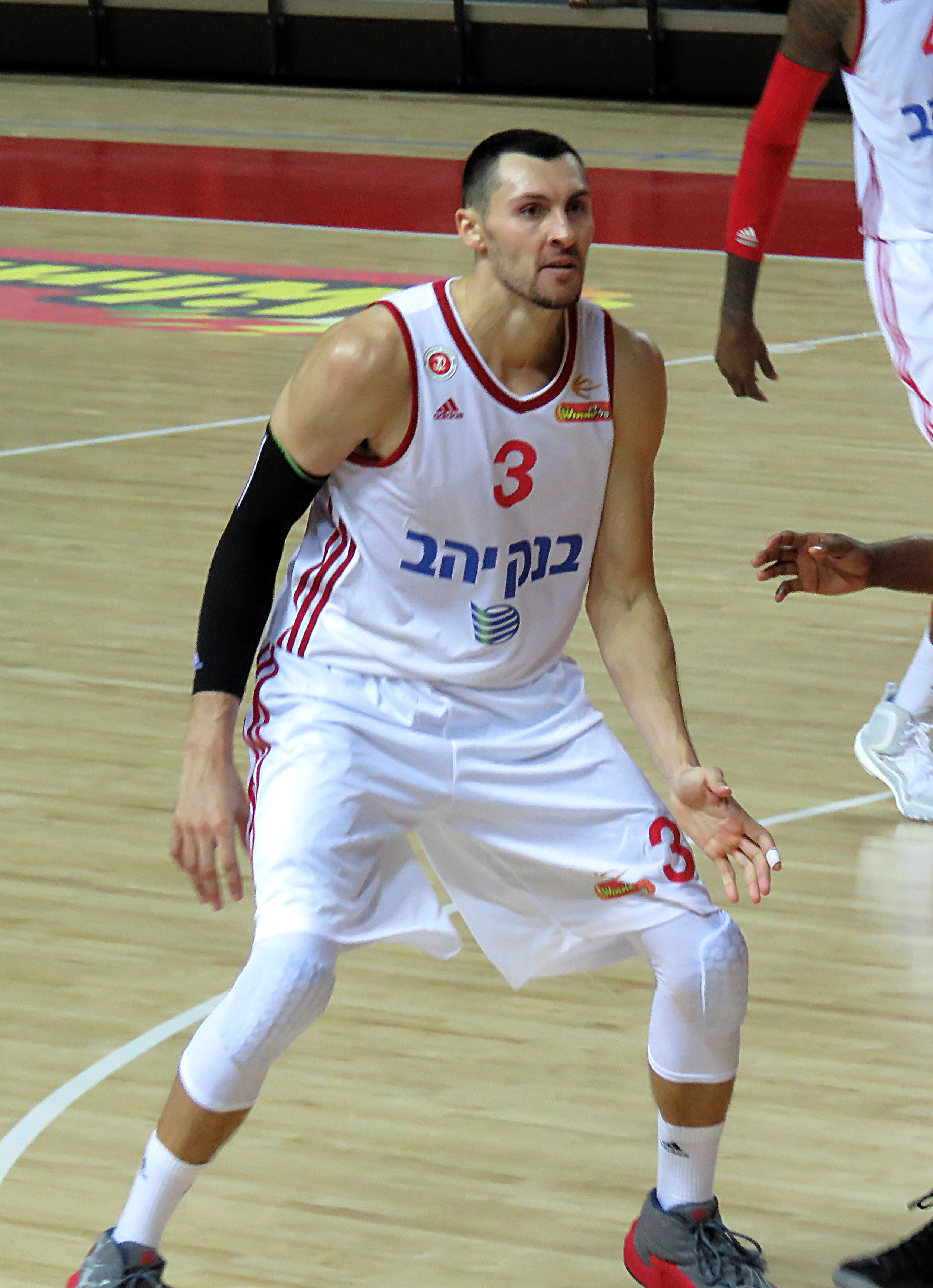 Hapoel Tel Aviv vs. Hapoel Jerusalem, 25 September, 2015